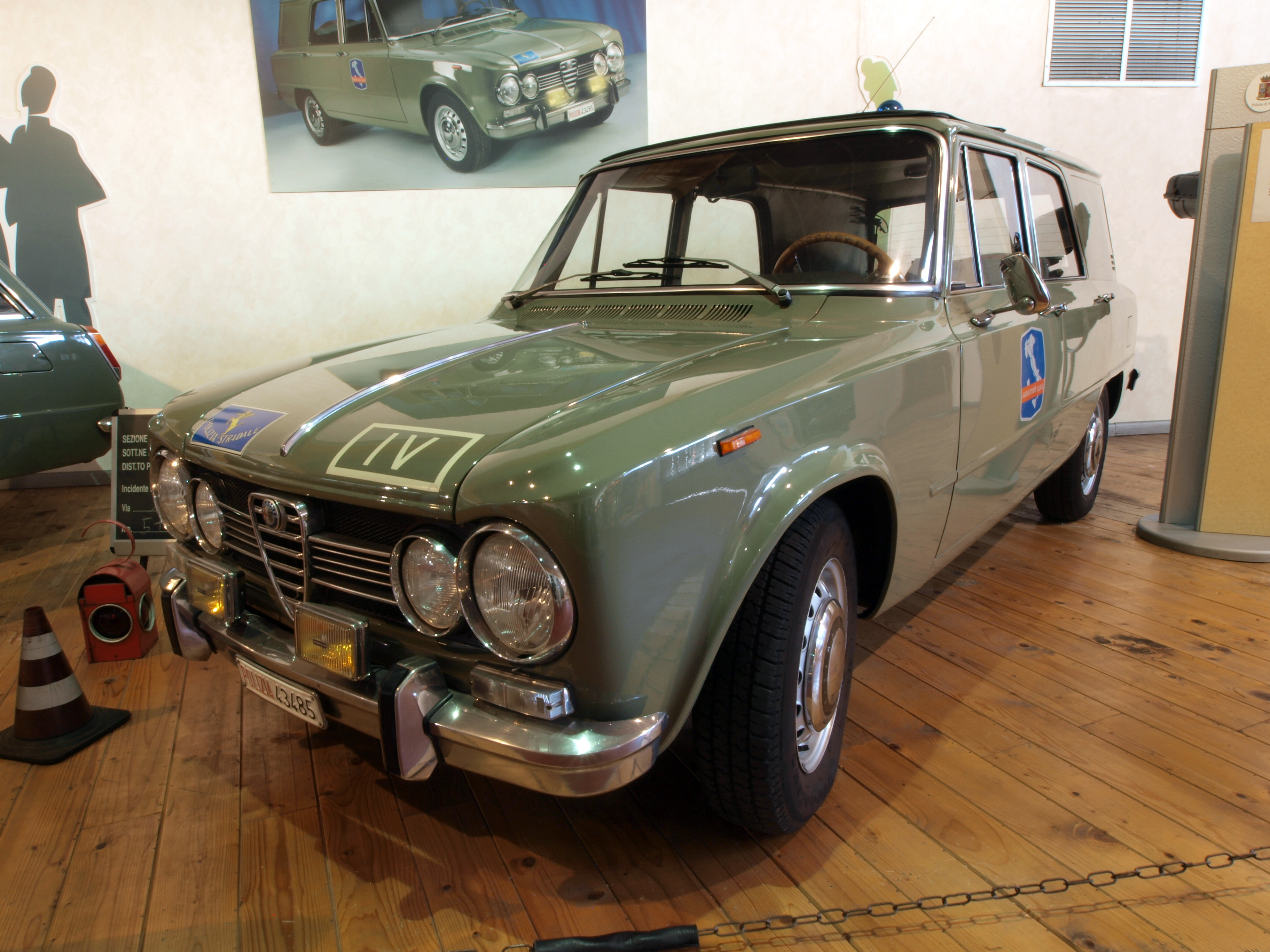 Photographed at Rome, Italy.